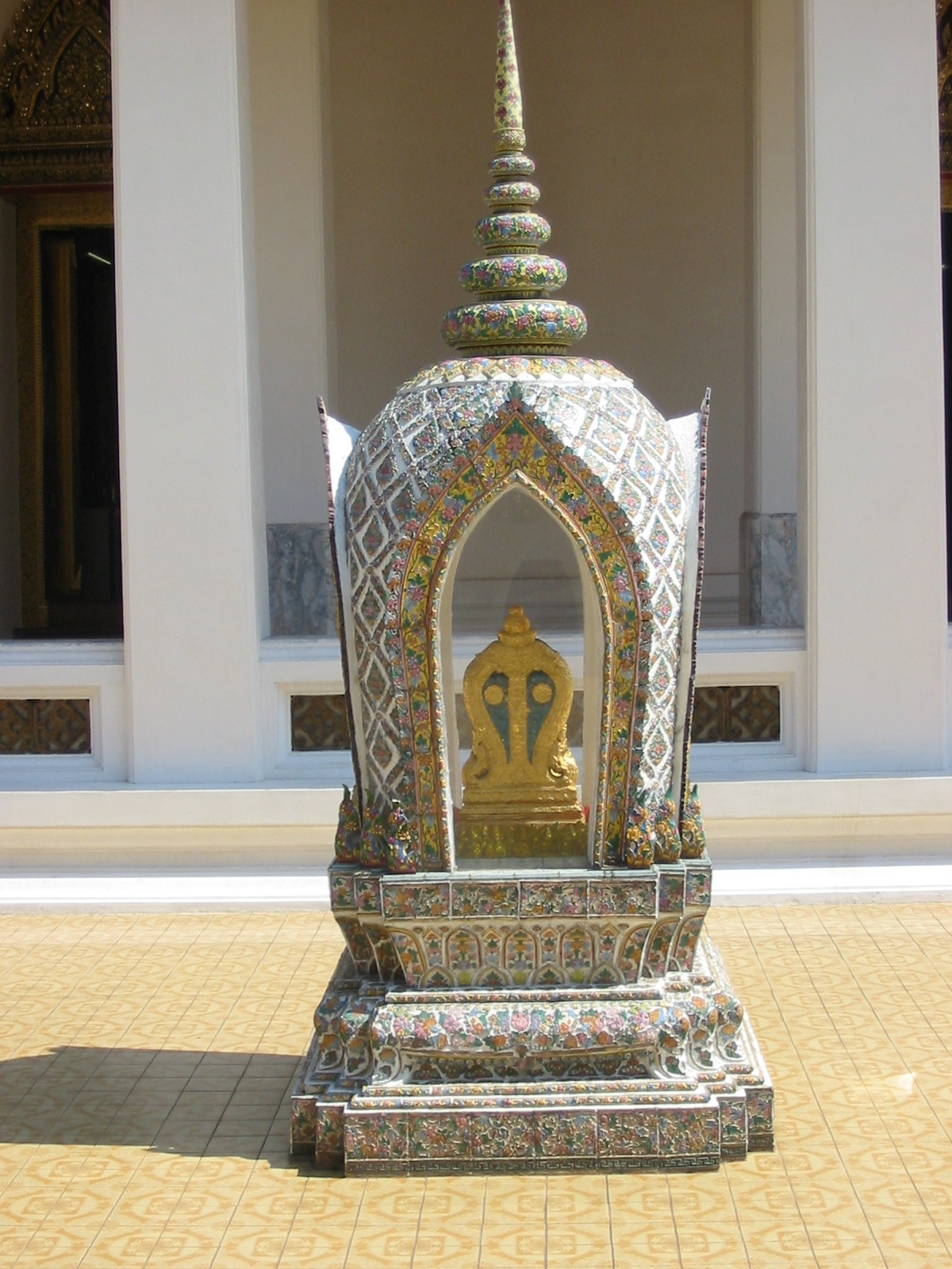 One of eight Bai Sema (boundary markers) in the courtyard of Wat Saket (Temple of the Golden Mount), Bangkok, Thailand